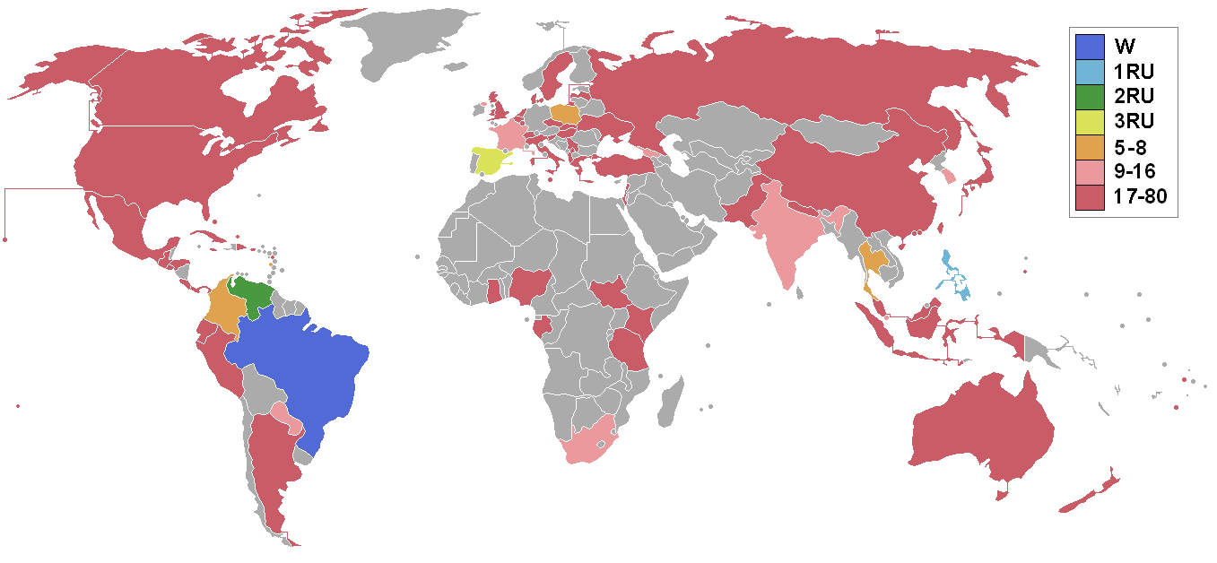 Miss Earth 2009 pageant participation map